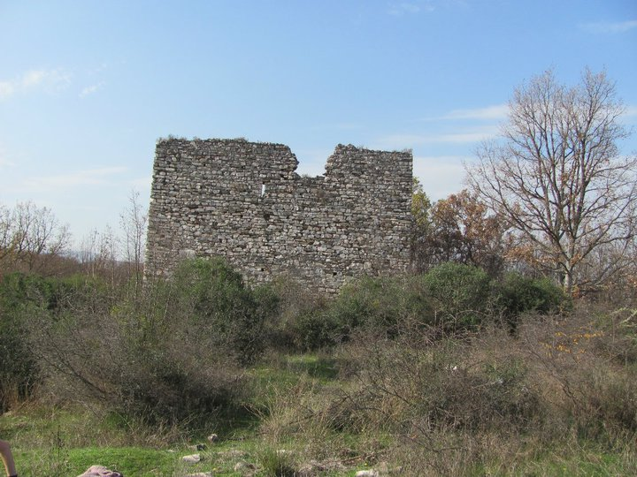 Fortress Byal grad in Rhodope Mountains, Bulgaria